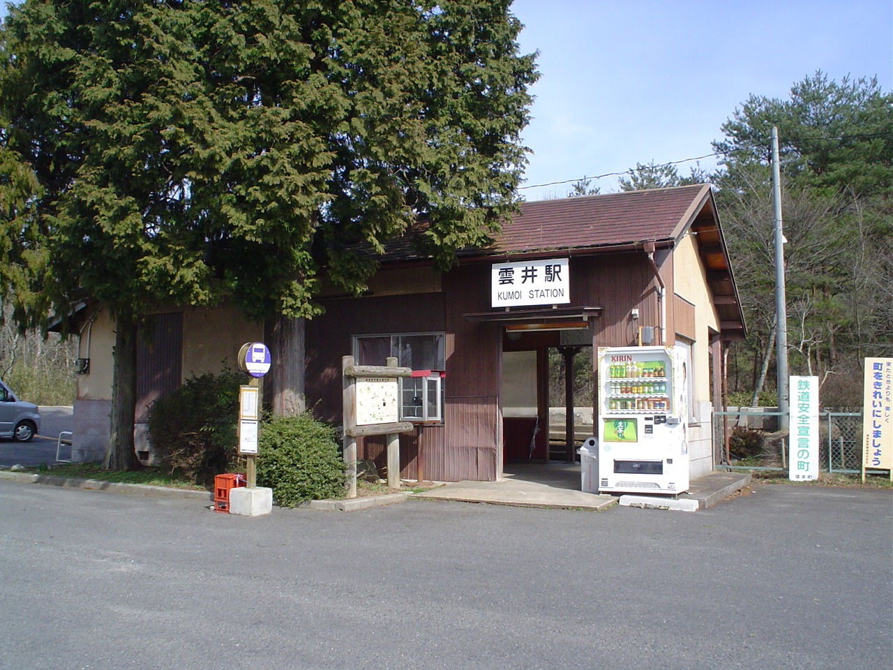 Kumoi Station in Siga pref, Japan信楽高原鐵道信楽線雲井駅